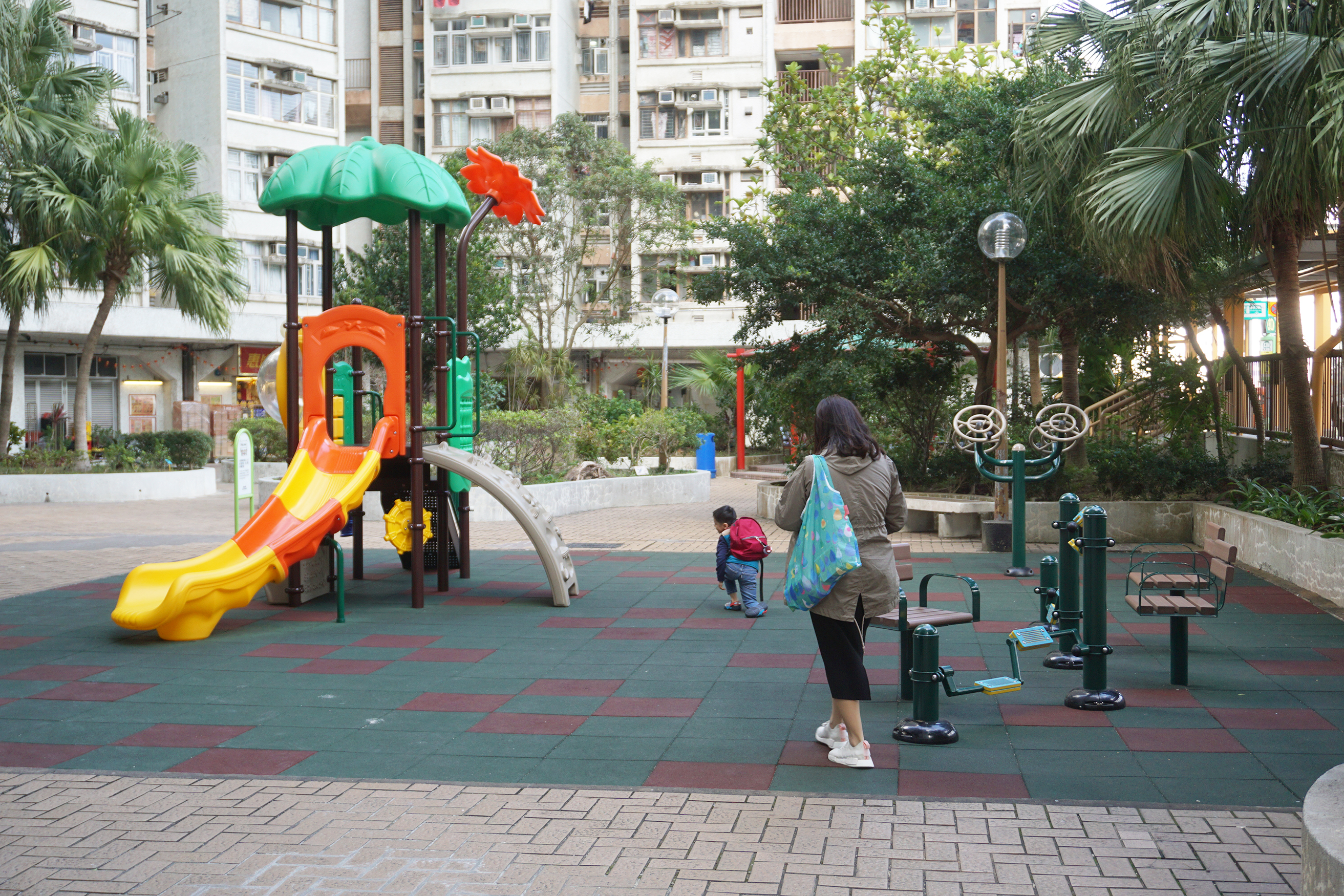 King Tsui Court in Chai Wan, Hong Kong.